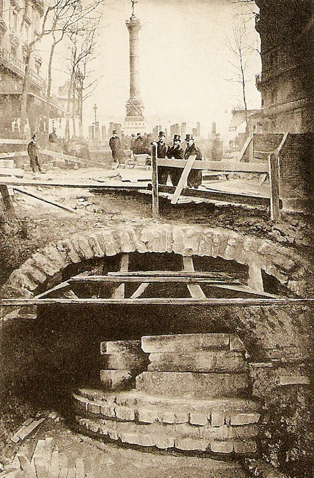 Foundations of the bastille. French law allows the use of anonymous photographs 70 years after date of first publication.